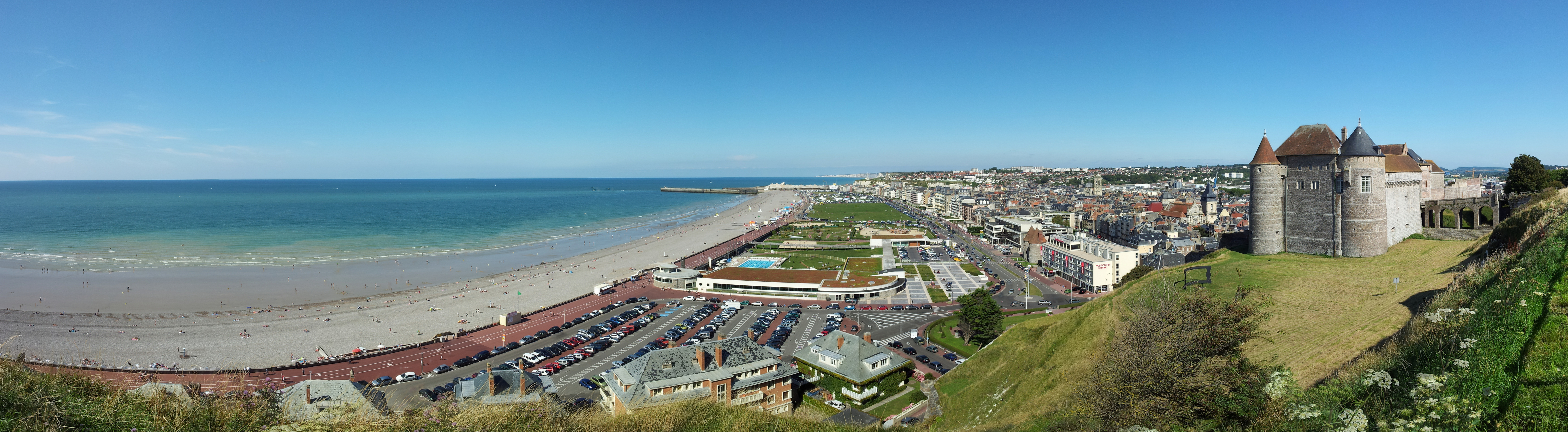 Panoramic view of the city and beach of Dieppe. The stitched photo was taken from a hill in the west, close to the castle Château de Dieppe. Date: July 2011.